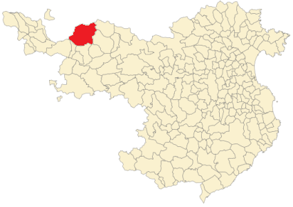 Queralbs